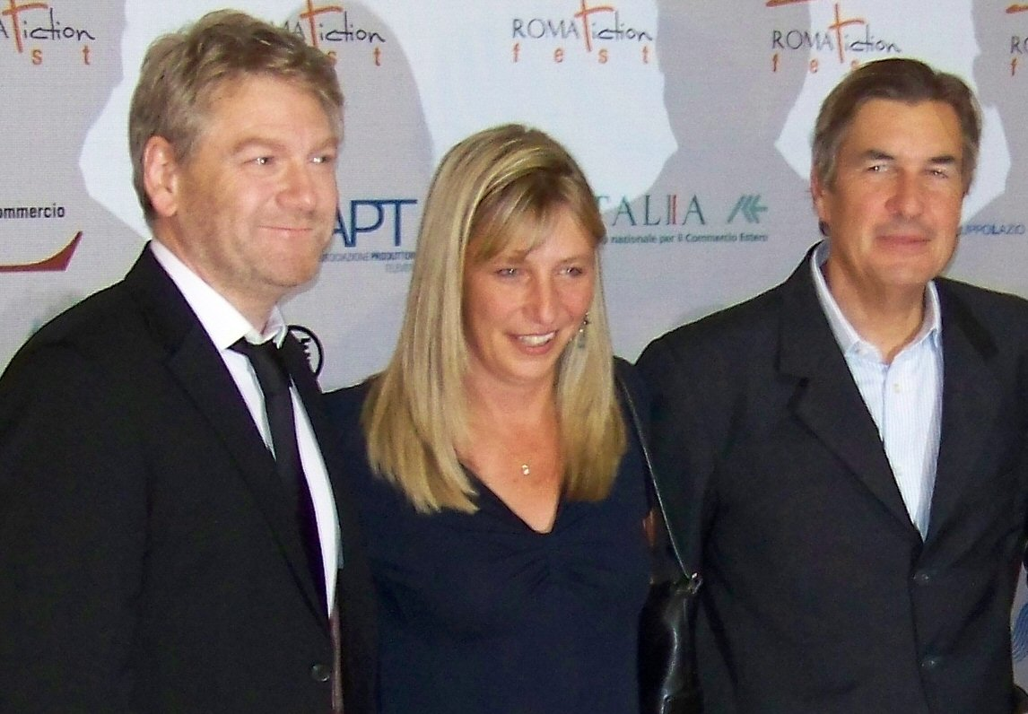 Kenneth Branagh at the 2009 Roma Fiction Fest.